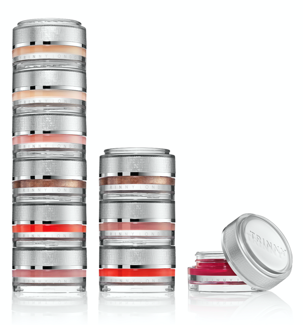 Product photo of Trinny London Stacks